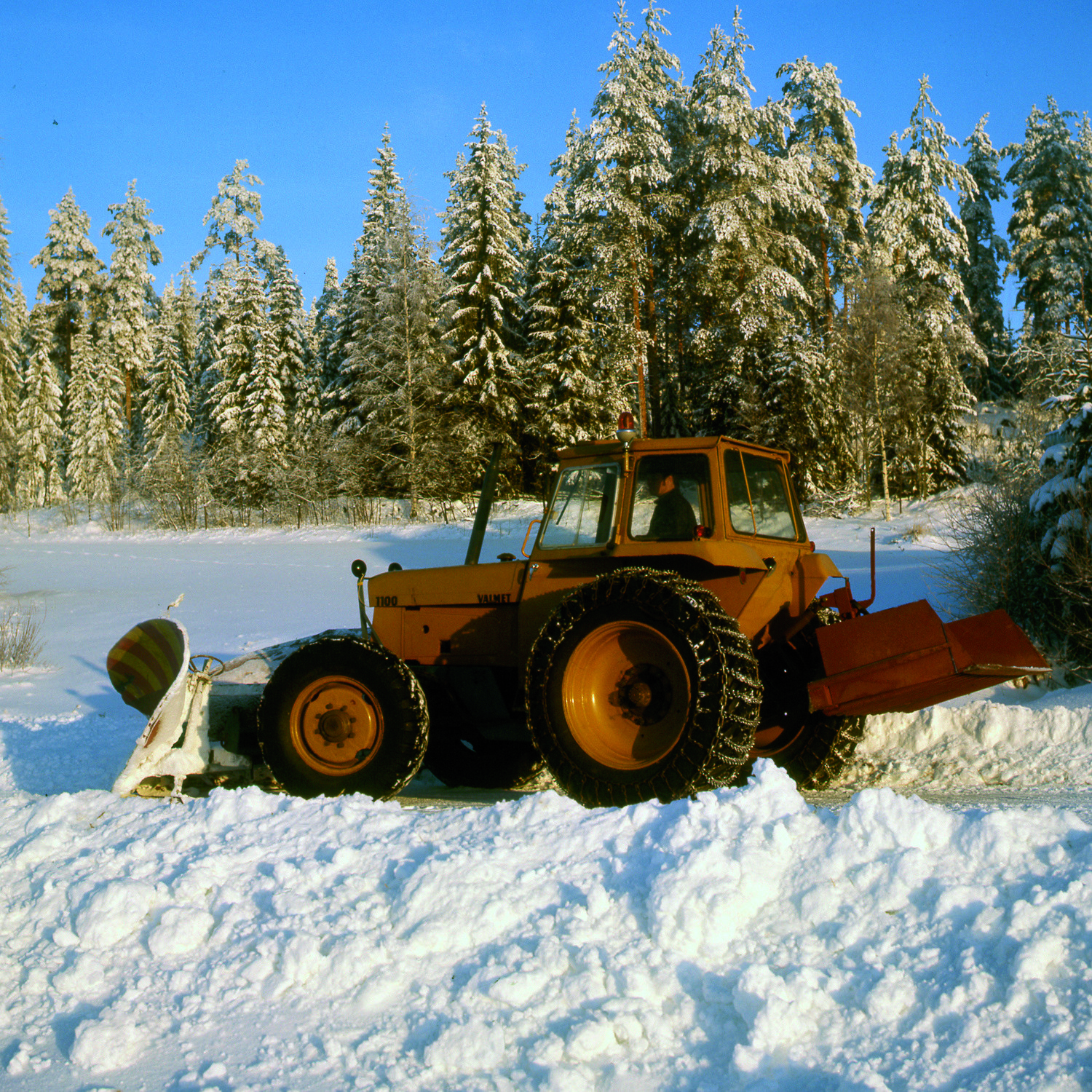 Launched in 1969 Valmet 1100 had turbocharged four-cylinder engine, 115 SAE horsepower, factory-fitted cabin and four-wheel drive.